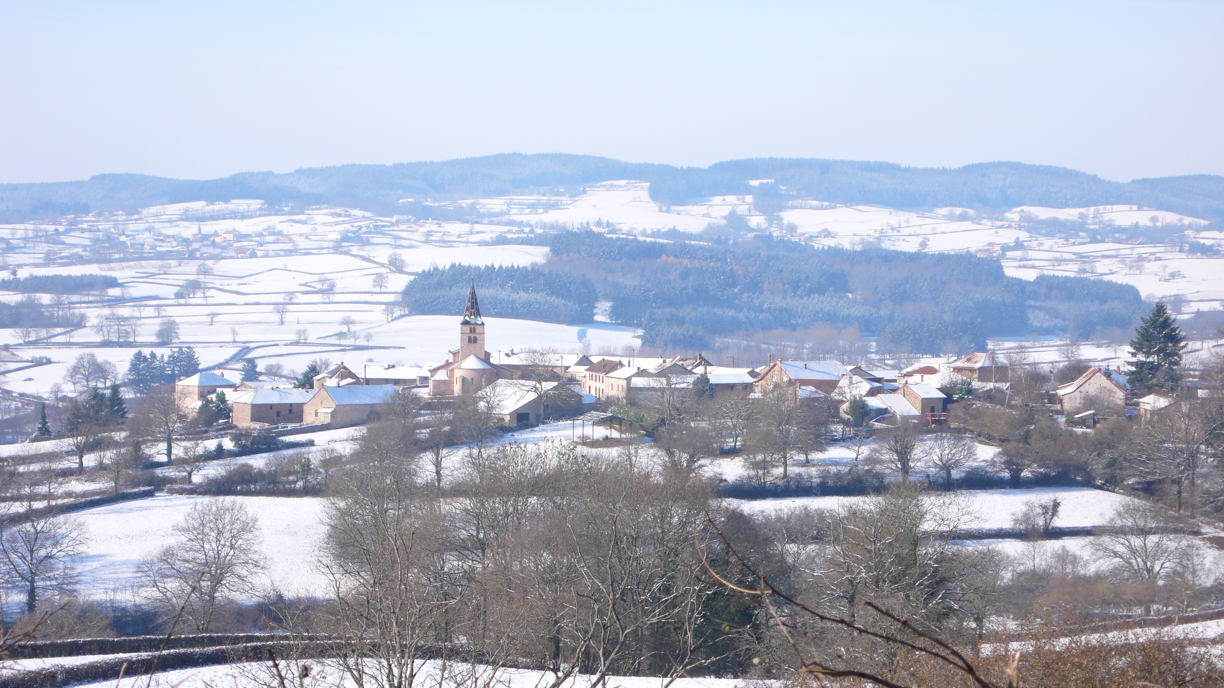 A vue of the "bourg" from "Le Mont"